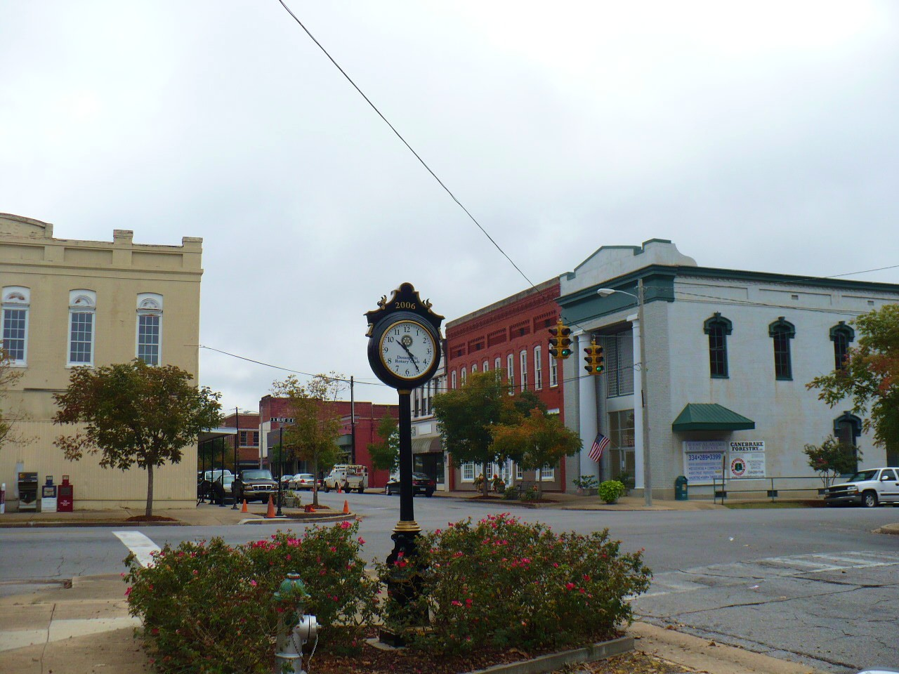 Looking east down Washington Street from its intersection with Walnut Avenue in the Demopolis Historic Business District, in Demopolis, Alabama, United States. The district was added to the National Register of Historic Places on October 25, 1979.